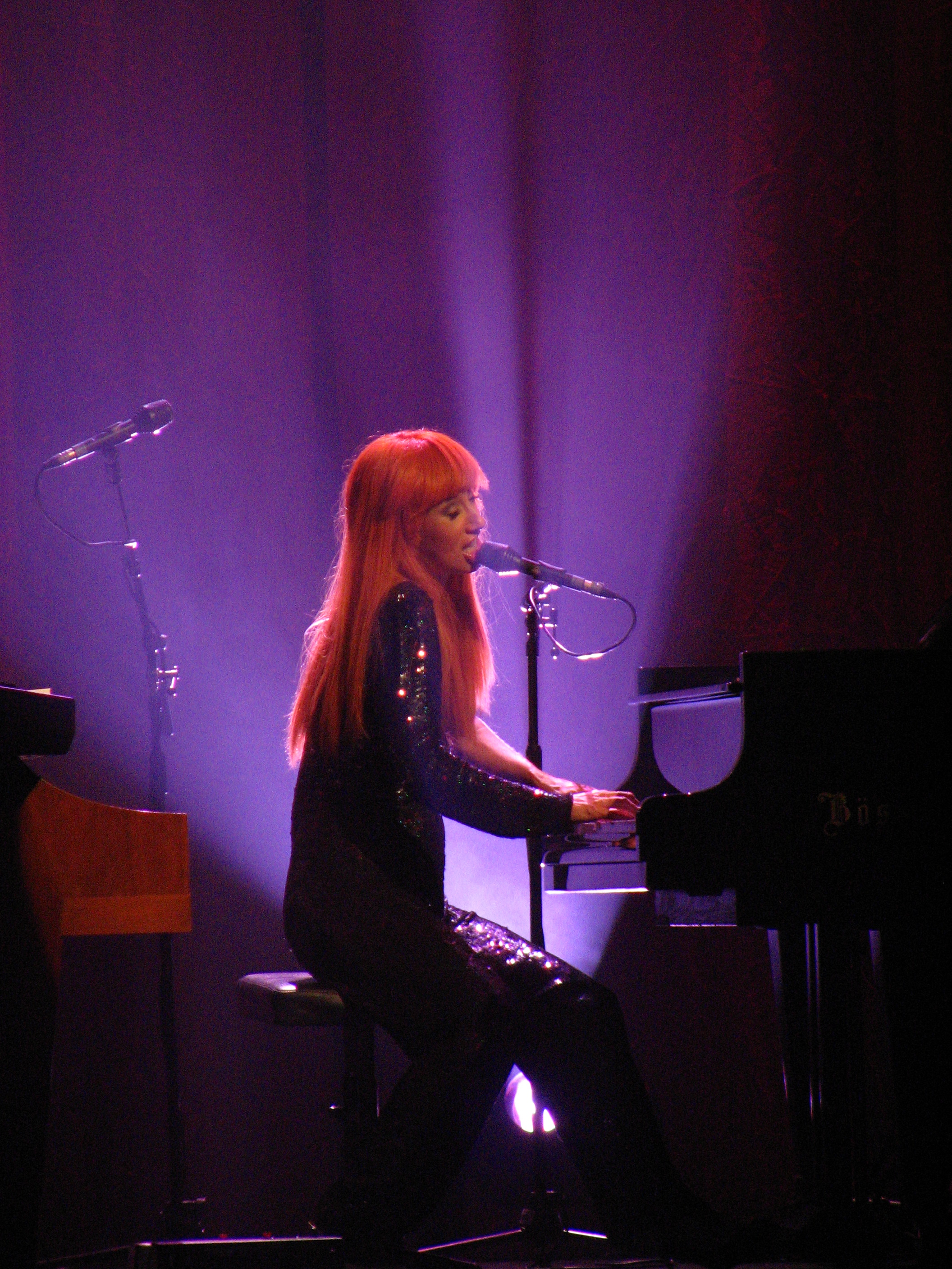 Tori Amos performing at Madison Square Garden, New York, USA.